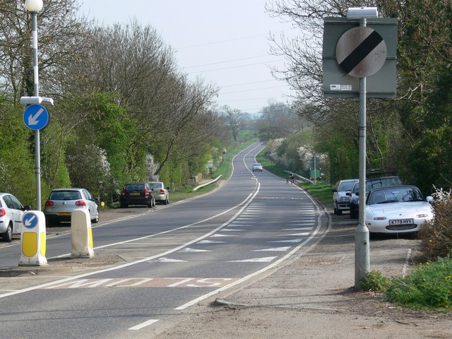 Welford Road, Kilby Bridge Looking south along the A5199, photographed from the Kilby Bridge Canal Bridge.